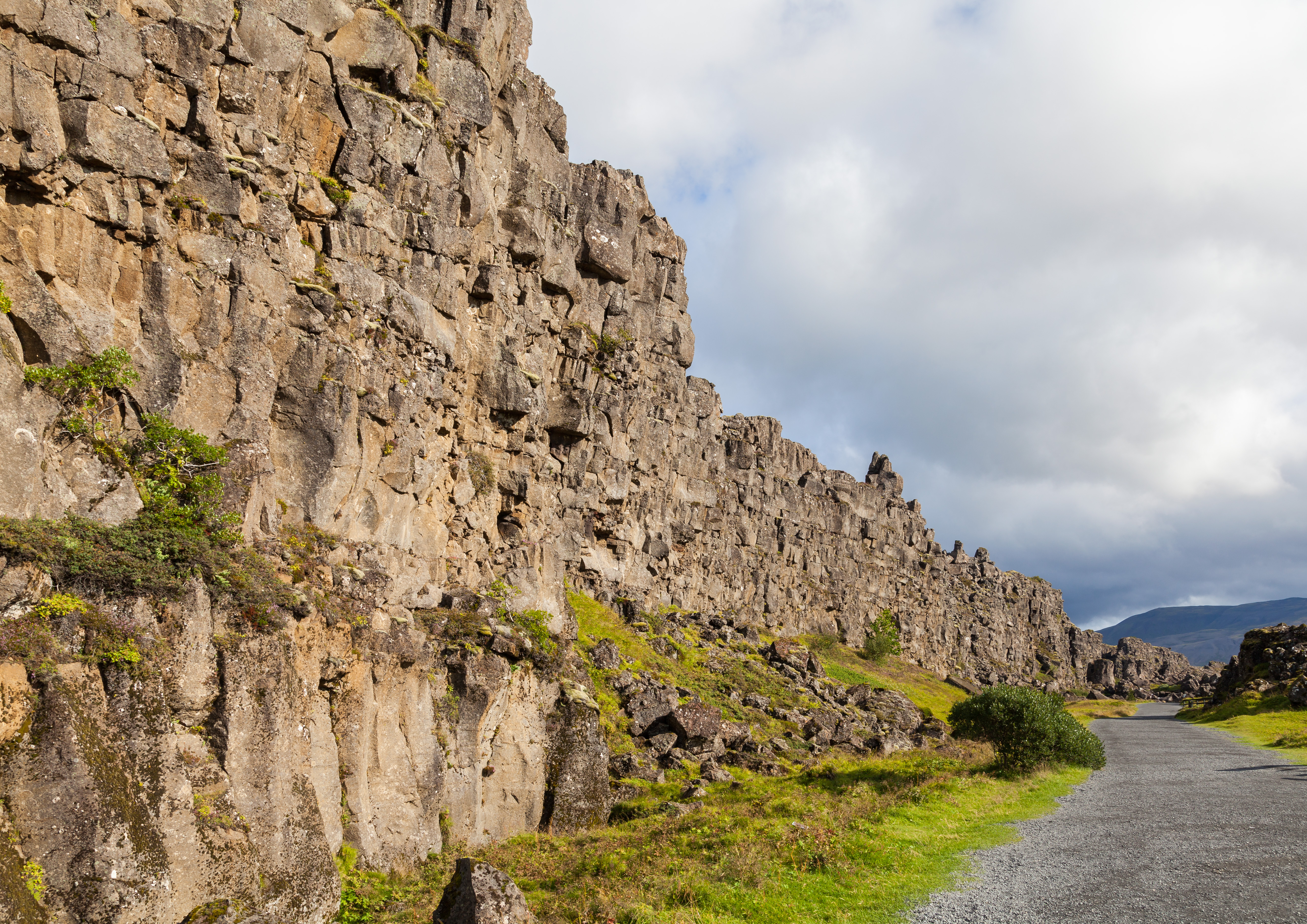 Law Rock, Þingvellir National Park, Suðurland, Iceland